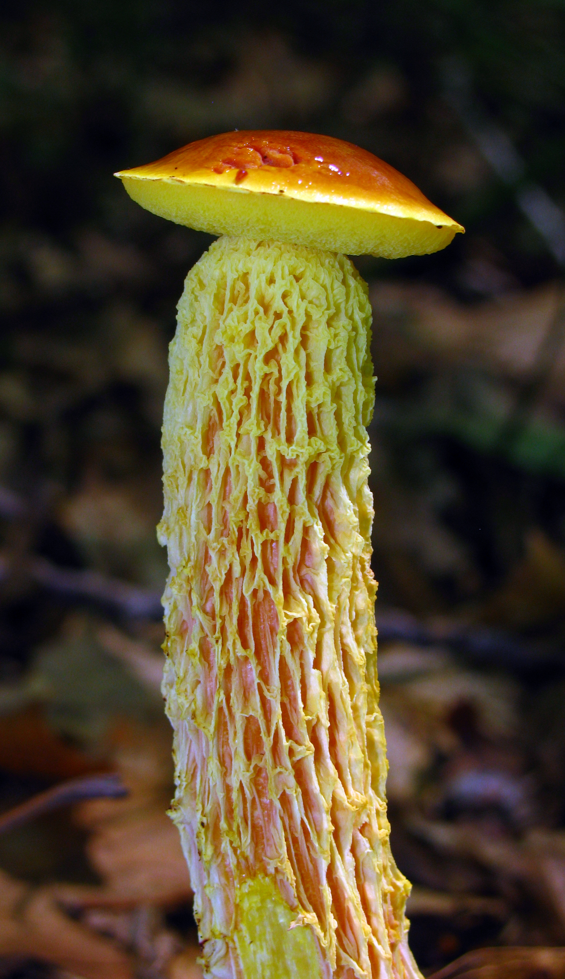 Heimioporus betula (Schwein.) E. Horak Location: Babcock State Park, Fayette Co., West Virginia, USA For more information about this, see the observation page at Mushroom Observer.